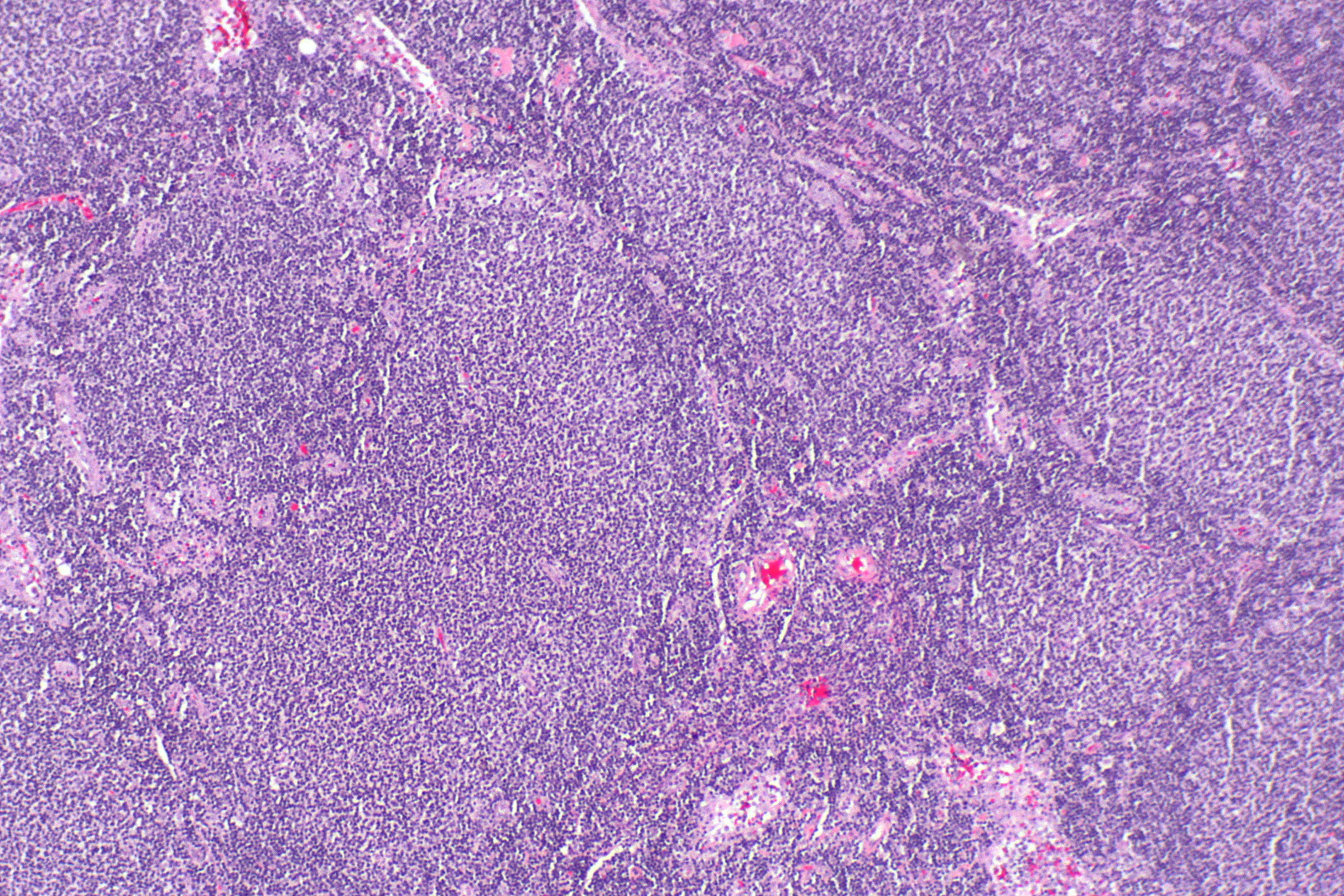 Micrograph showing a small B-cell lymphoma compatible with follicular lymphoma. H&E stain. Related images FL - very low mag. FL - low mag. FL - intermed. mag. FL - high mag. FL - very high mag. FL - BCL2 - low mag. FL - BCL2 control - low mag.